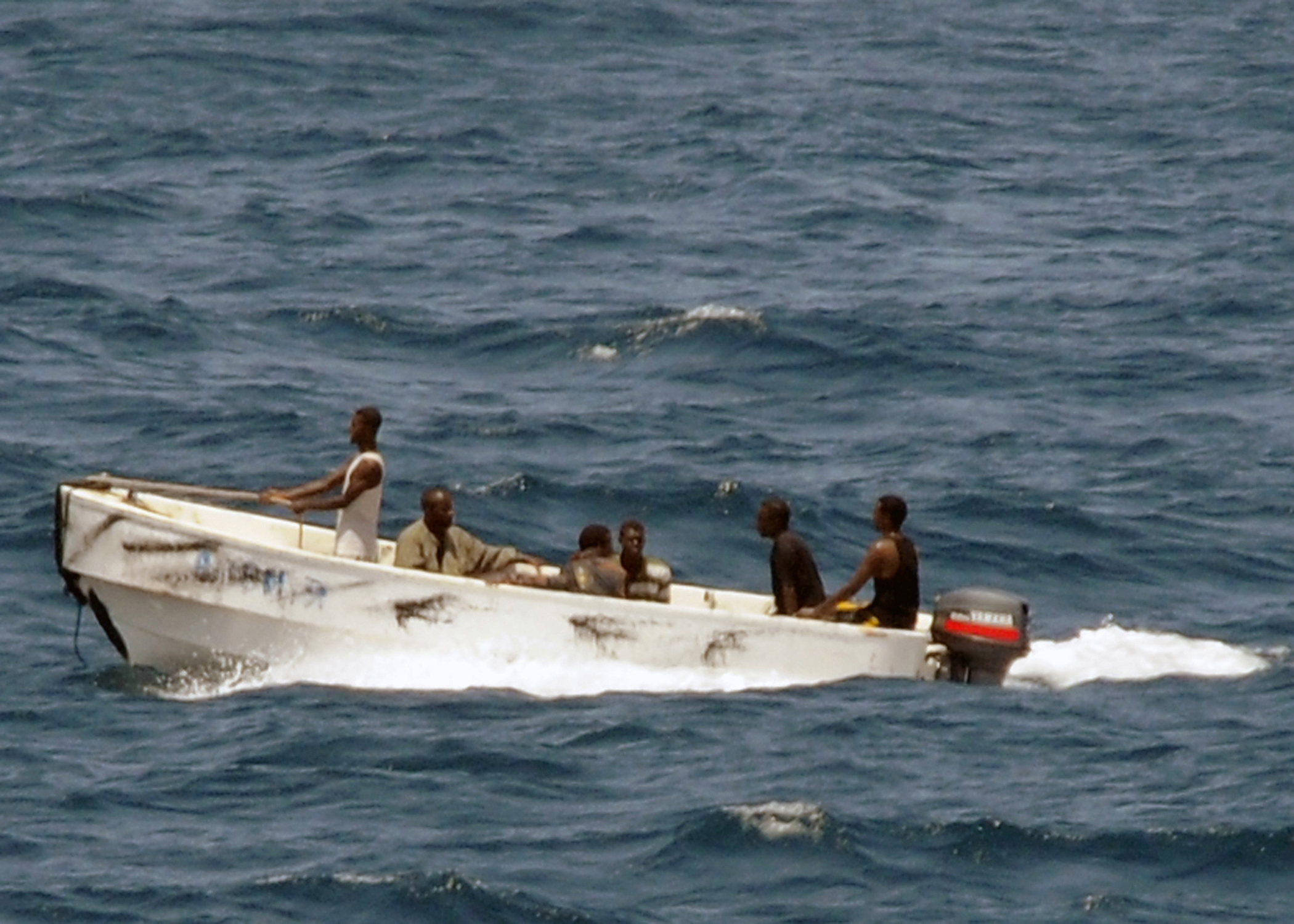 INDIAN OCEAN (Oct. 08, 2008) Pirates leave the merchant vessel MV Faina for the Somali shore Wednesday, Oct. 8, 2008 while under observation by a U.S. Navy ship. The Belize-flagged cargo ship is owned and operated by Kaalbye Shipping, Ukraine and is carrying a cargo of Ukrainian T-72 tanks and related military equipment. The ship was attacked seized by pirates Sept. 25 and forced to proceed to anchorage off the Somali coast. U.S. Navy photo by Mass communication Specialist 2nd Class Jason R. Zalasky (Released)